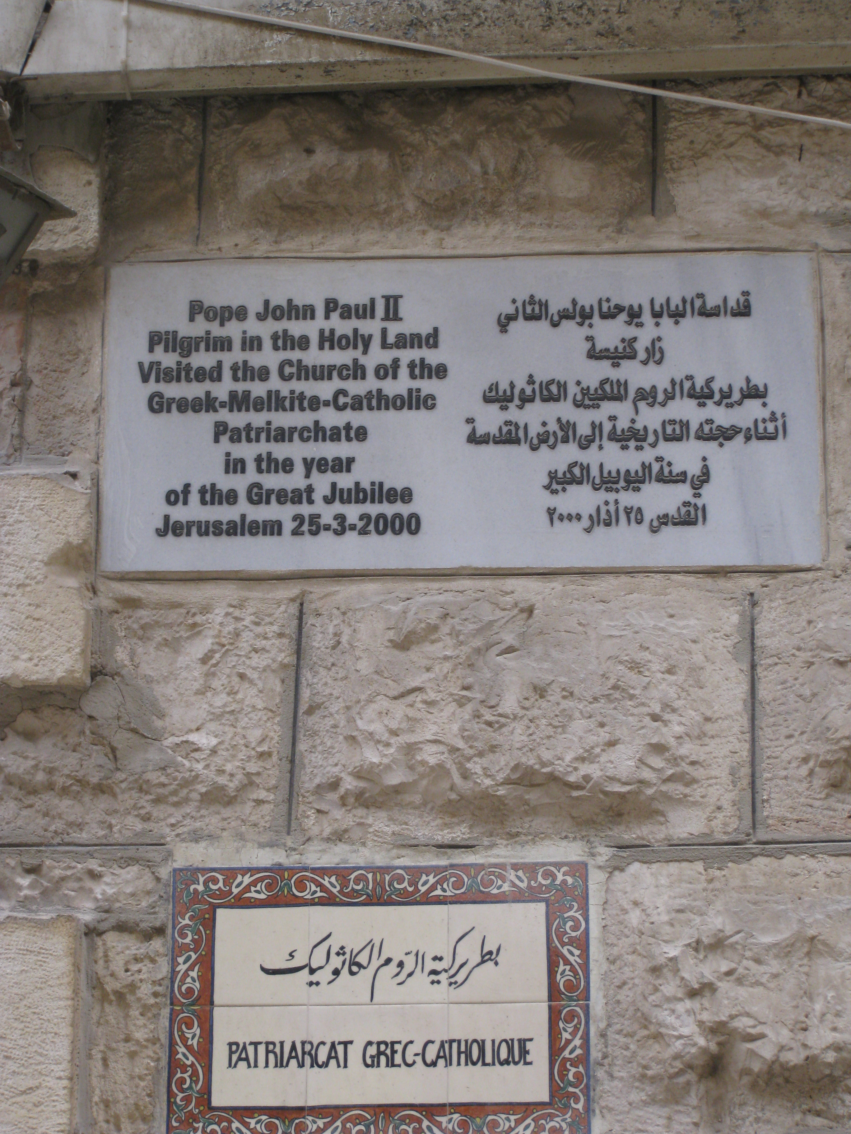 The Christian Quarter